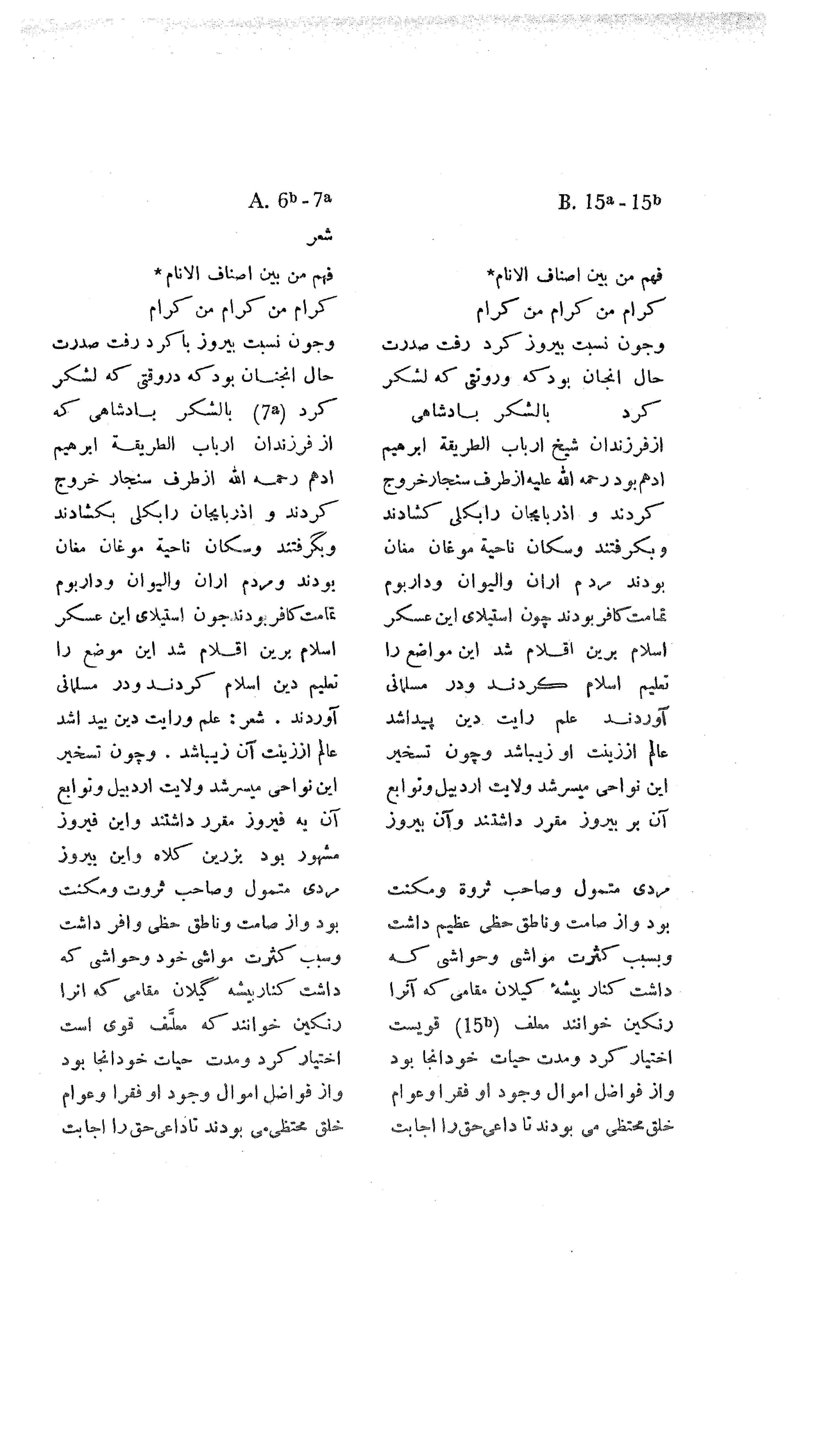 Taken from pg 349 of Z. V. Togan, "Sur l’Origine des Safavides," in Melanges Louis Massignon, Damascus , 1957. Samples of the two oldest and only pre-1501 extant manuscripts of Safvat al-Safa. Manuscript A Leiden ms. 2639 from 890/1485. Manuscript B Ayasofya ms. 3099 from 1491. Copyright does not apply as the text is taken from a manuscript from 520 years ago. The author of the manuscript, Ebn Bazzaz passed away at least 600 years ago.